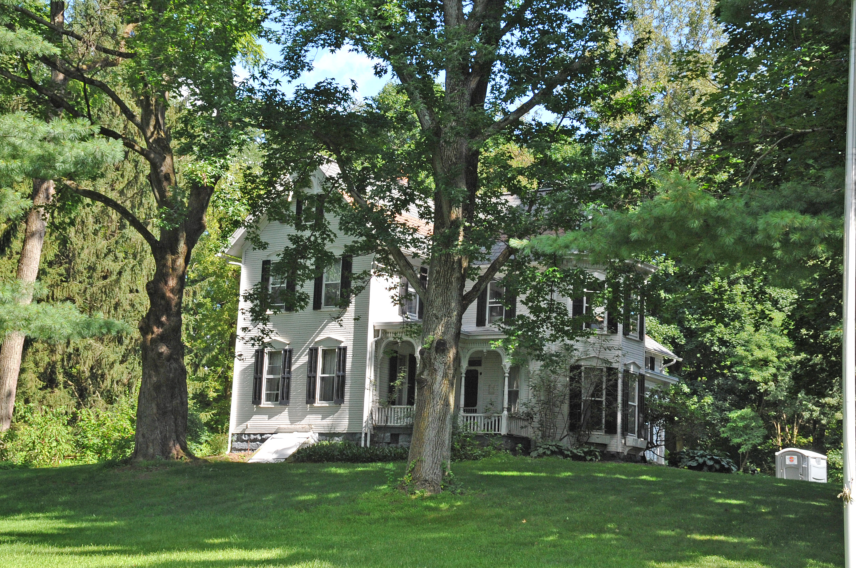 CIRCA 1875-1899 VICTORIAN STICK/EASTLAKE